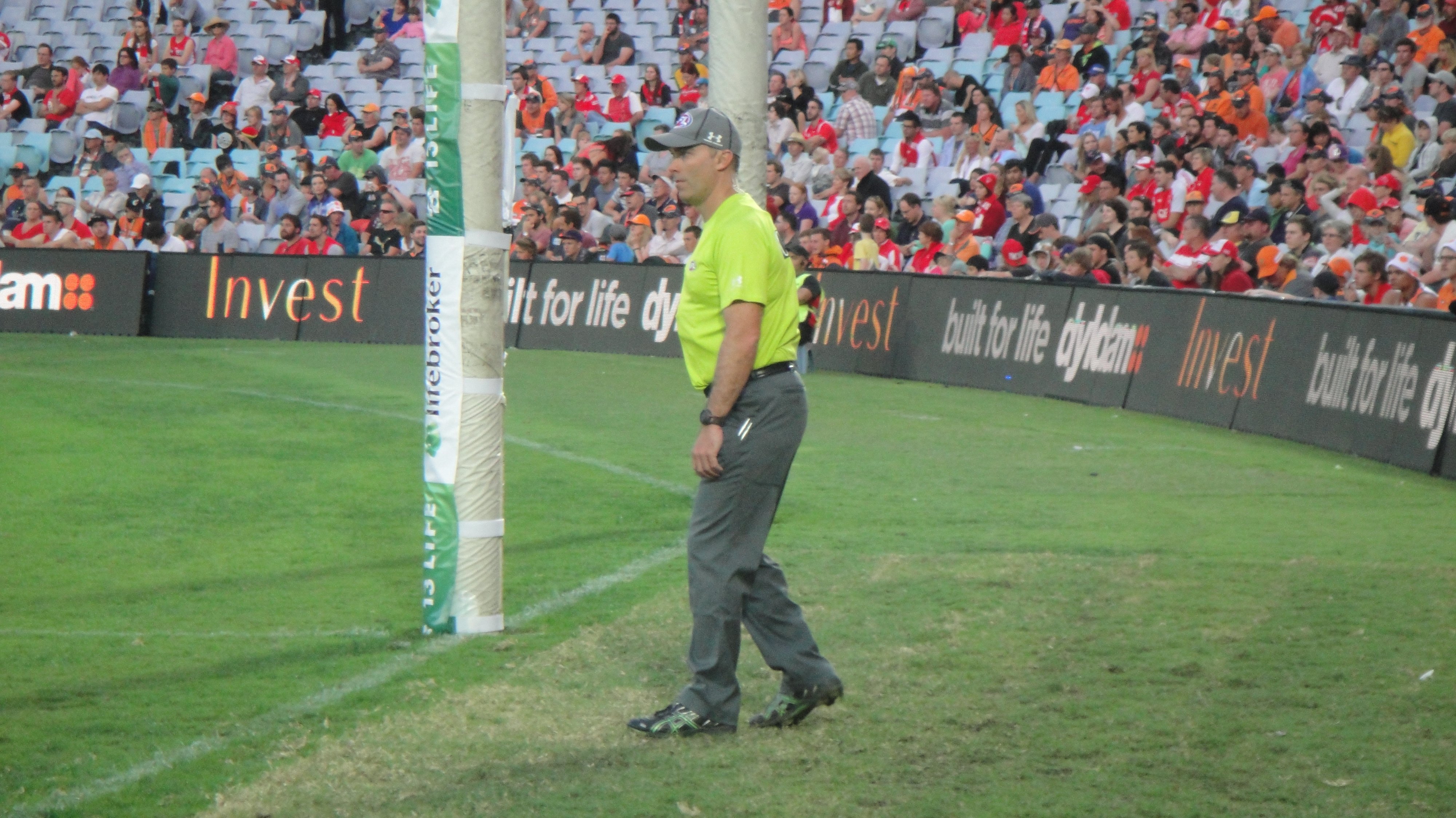 AFL Goal Umpire guarding the southern end of ANZ Stadium, 30/3/2013